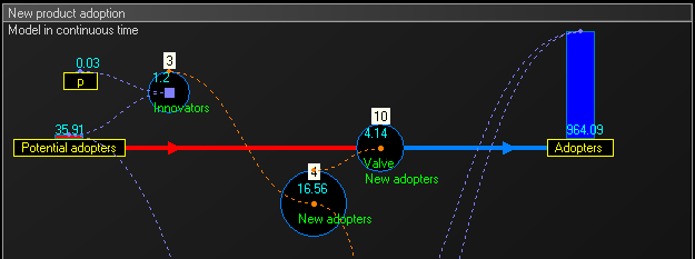 Dynamic stock and flow diagram of Adoption model in continuous time. Diagram created by contributor, with software TRUE (Temporal Reasoning Universal Elaboration) True-World Model from article by John Sterman (2001) Systems dynamics modeling: tools for learning in a complex world, California management review, Vol 43 no 1, Summer 2001